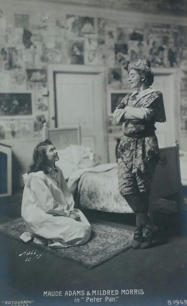 Maude Adams as Peter Pan and Mildred Morris as Wendy in the Peter Pan bedroom scene, cabinet photograph by Halls of New York in relation to the 1906 production of James Matthew Barries Peter Pan